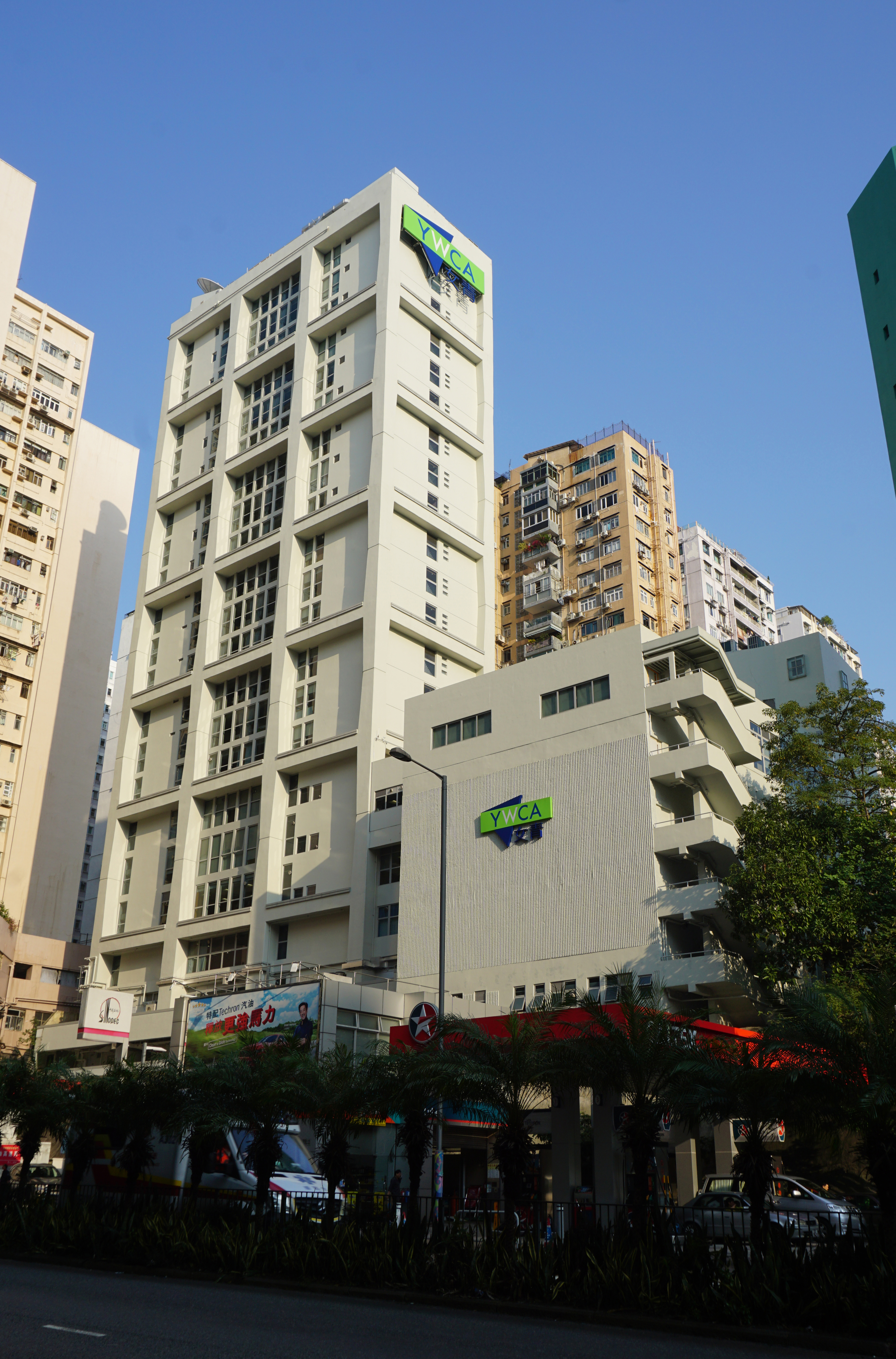 Summit View Kowloon in Mong Kok, Hong Kong.